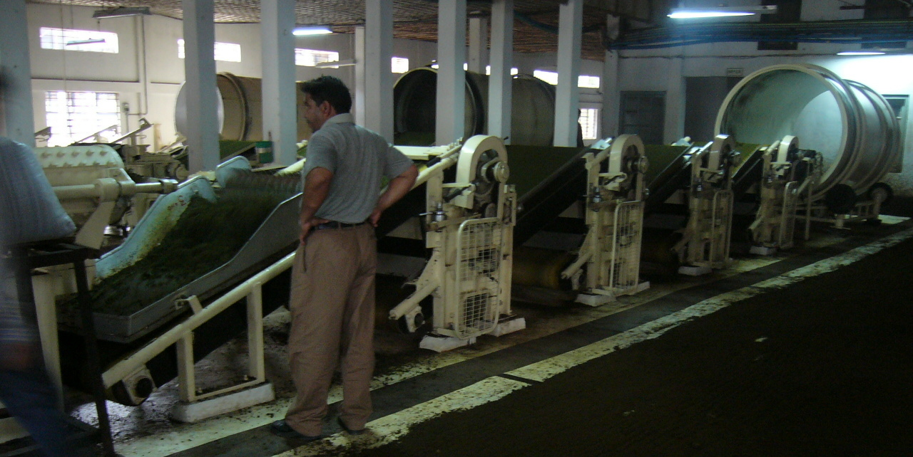 Tea-processing machines at a factory in Srimongol, Sylhet, Bangladesh.